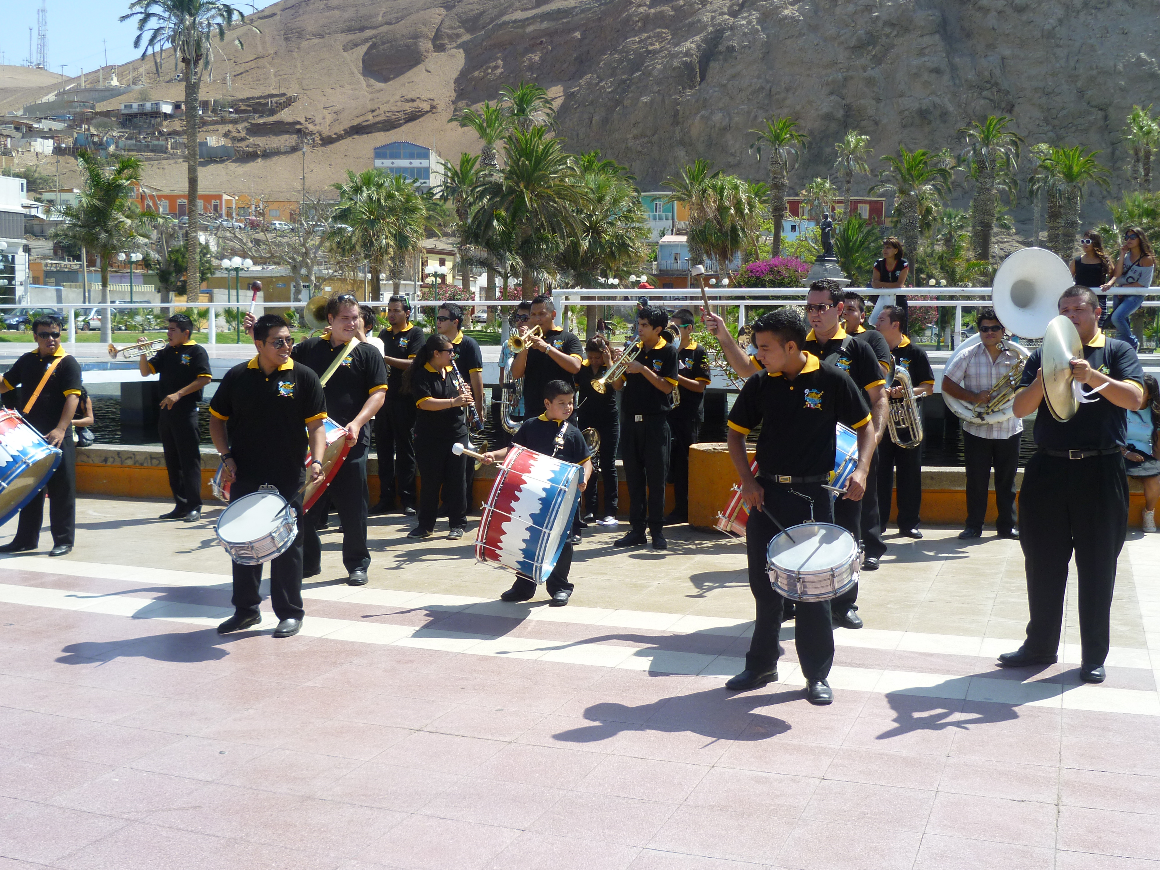 Una banda de músicos del carnaval